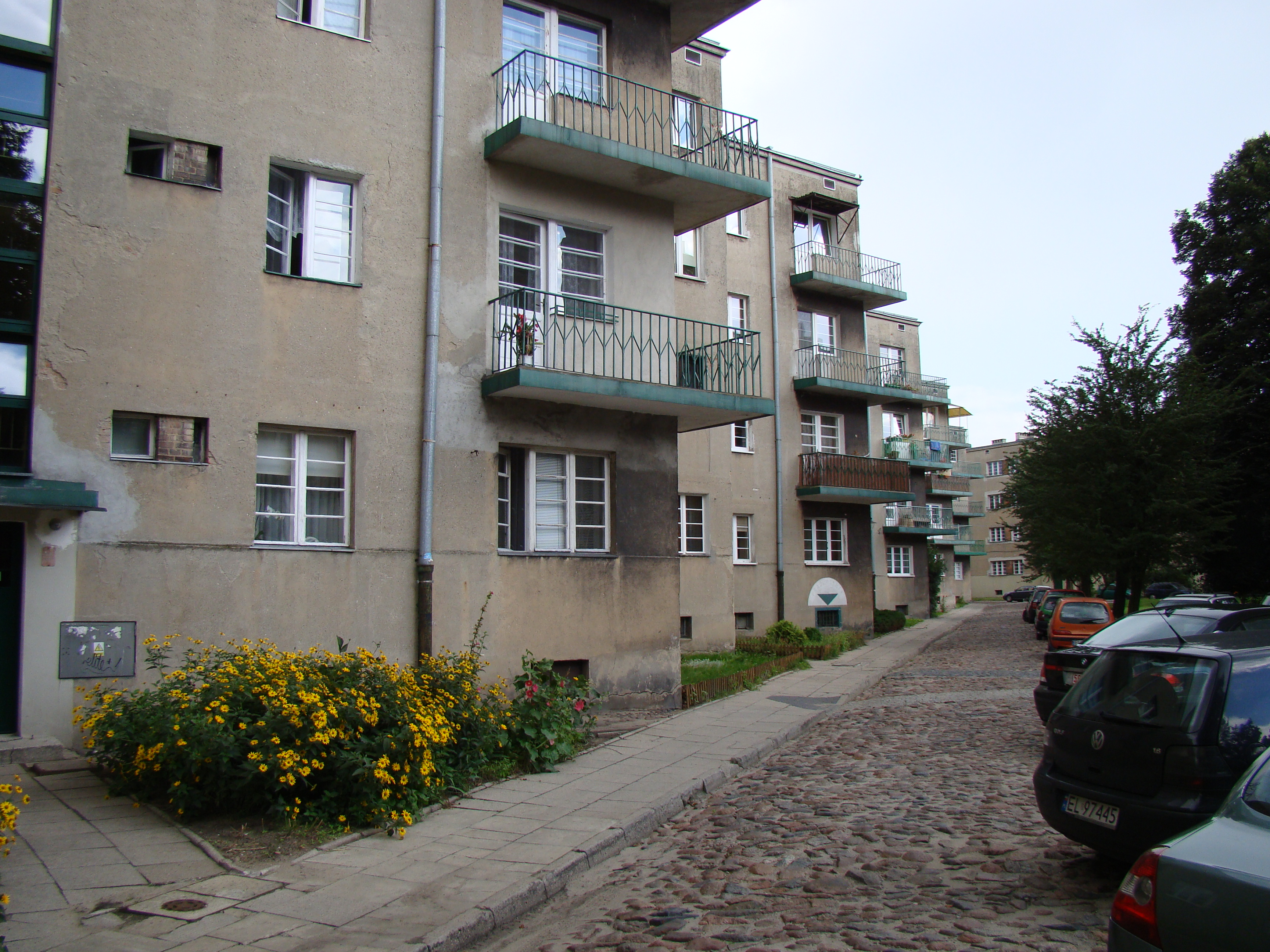 District of Łódź - Osiedle Montwiłła-Mireckiego (18)